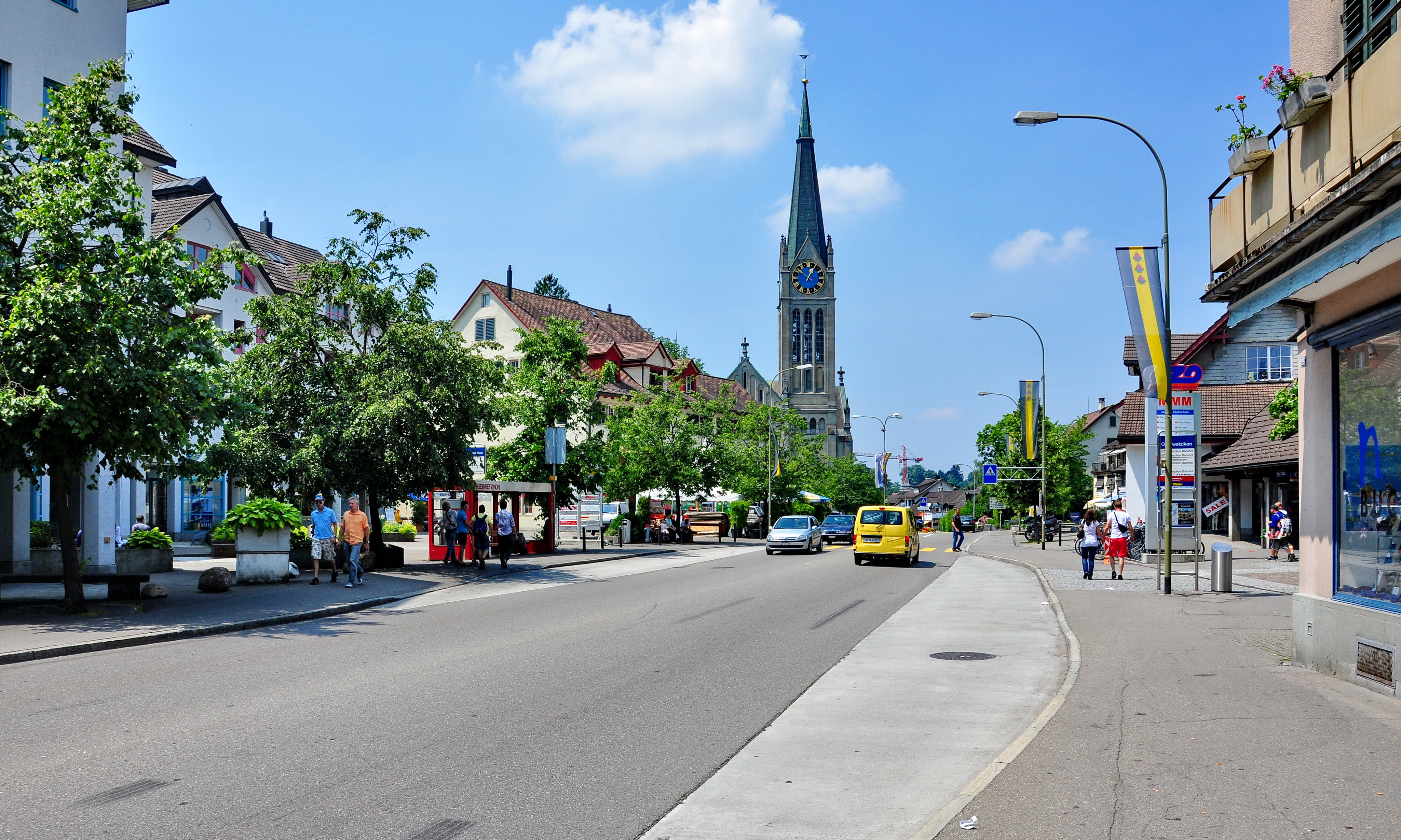 Reformierte Kirche in Wetzikon (Switzerland)